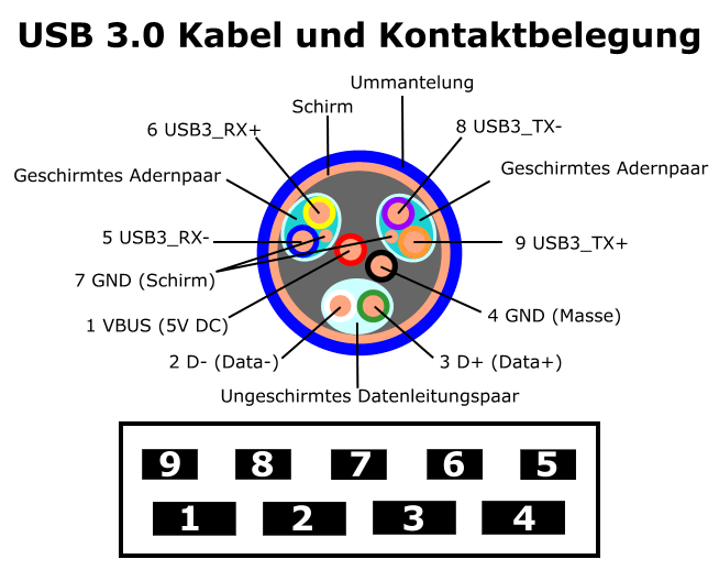 Cabel, colors of cabels, pinout of USB 3.0